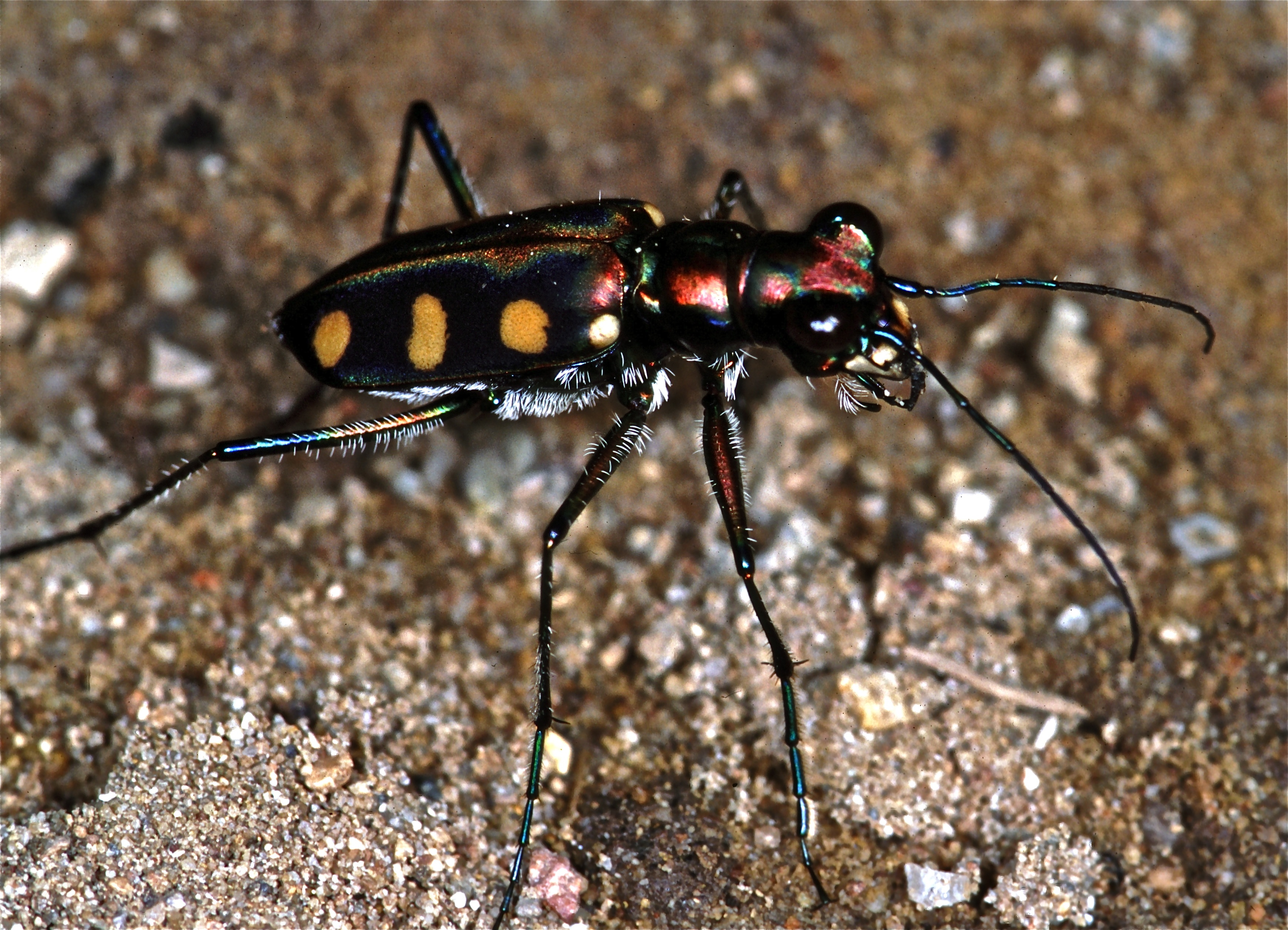 Si Satchanalai NP, THAILAND Scanned Slide from 2003